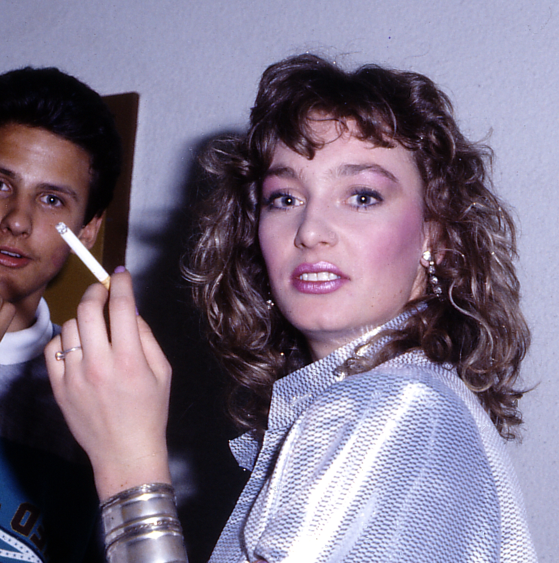 Jane Bogaert backstage 1987